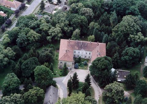 Lengyeltóti, Hungary, aerialphotography This is a photo of a monument in Hungary, Identifier: 7990